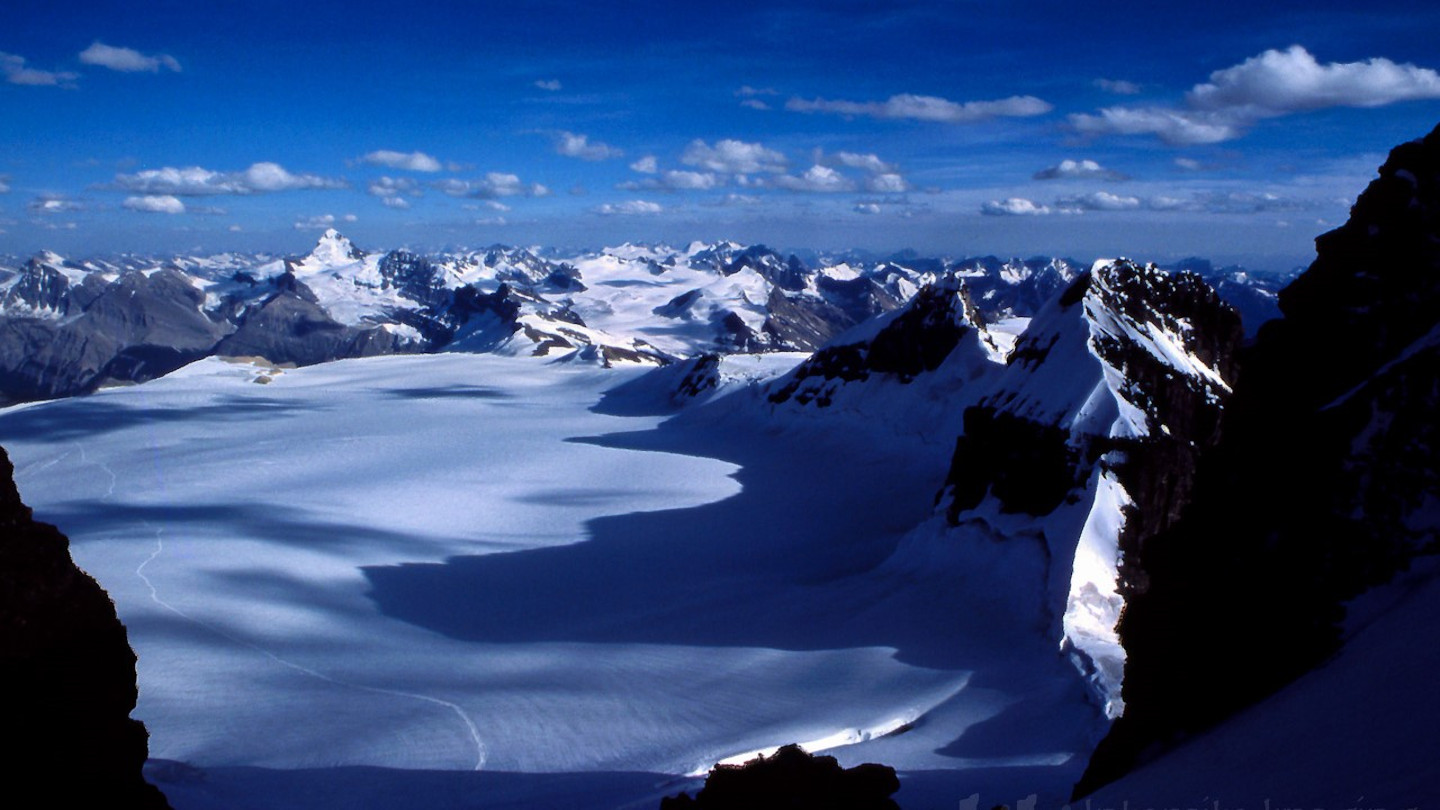 From below the summit of Mt. Lyell 3 (Ernest Peak), looking towards Mt. Forbes, Division Mtn., Lyell 4 (near) and 5 (farther out) with the Lyell Icefield taking up much of the photo. The Freshfields are centre, almost on the horizon.